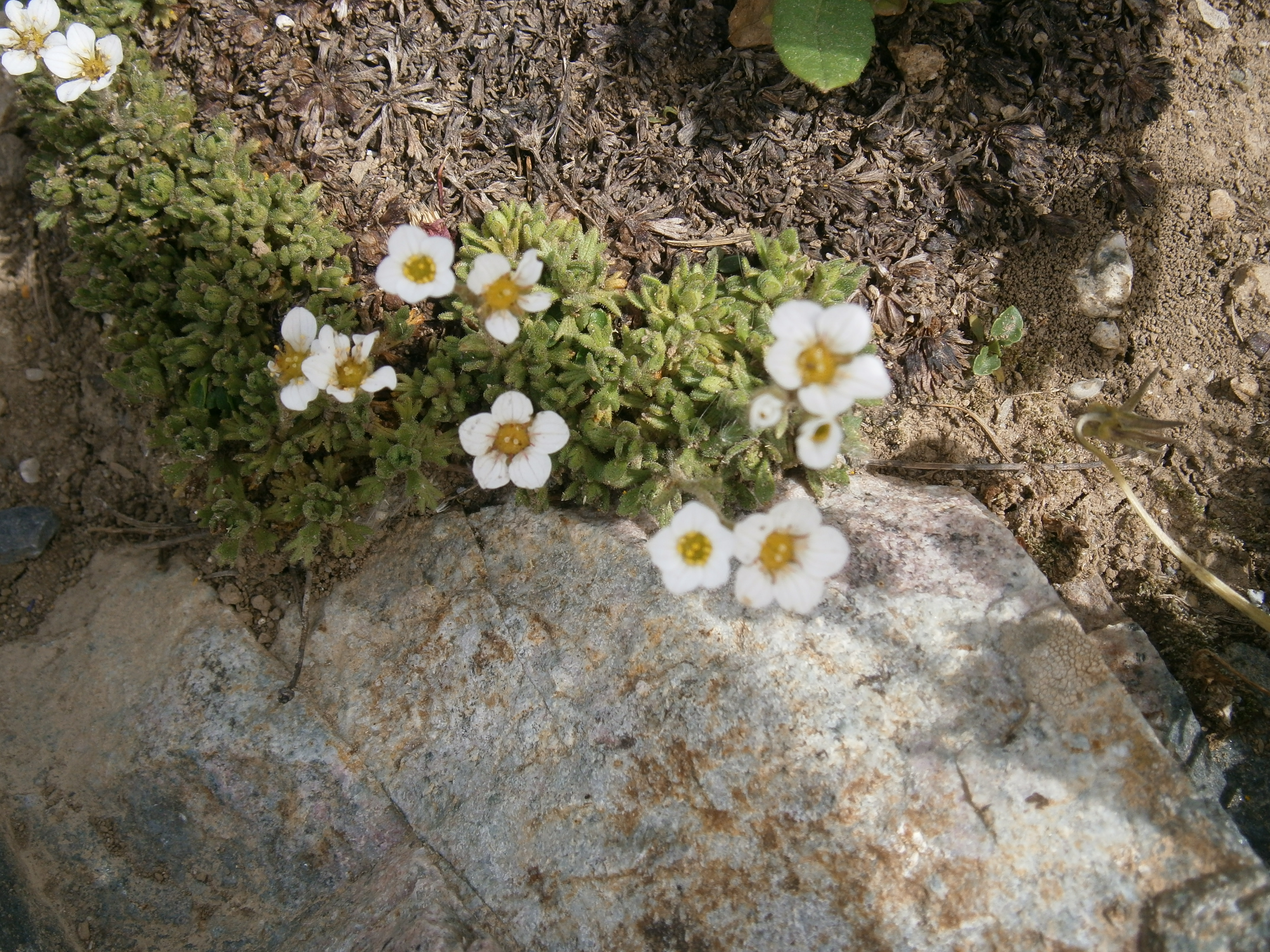 Saxifraga cebennensis in the Jardin Botanique Alpin du Lautaret